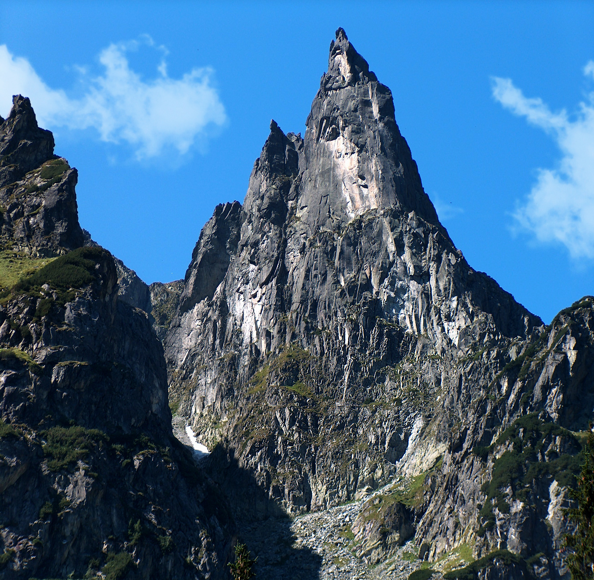 Mount Mnich, 2070 m.